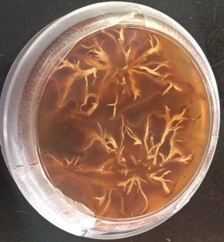 Unmelanized rhizomorph of Desarmillaria tabescence in Malt yeast extract medium (Photo courtesy of C. Paez)